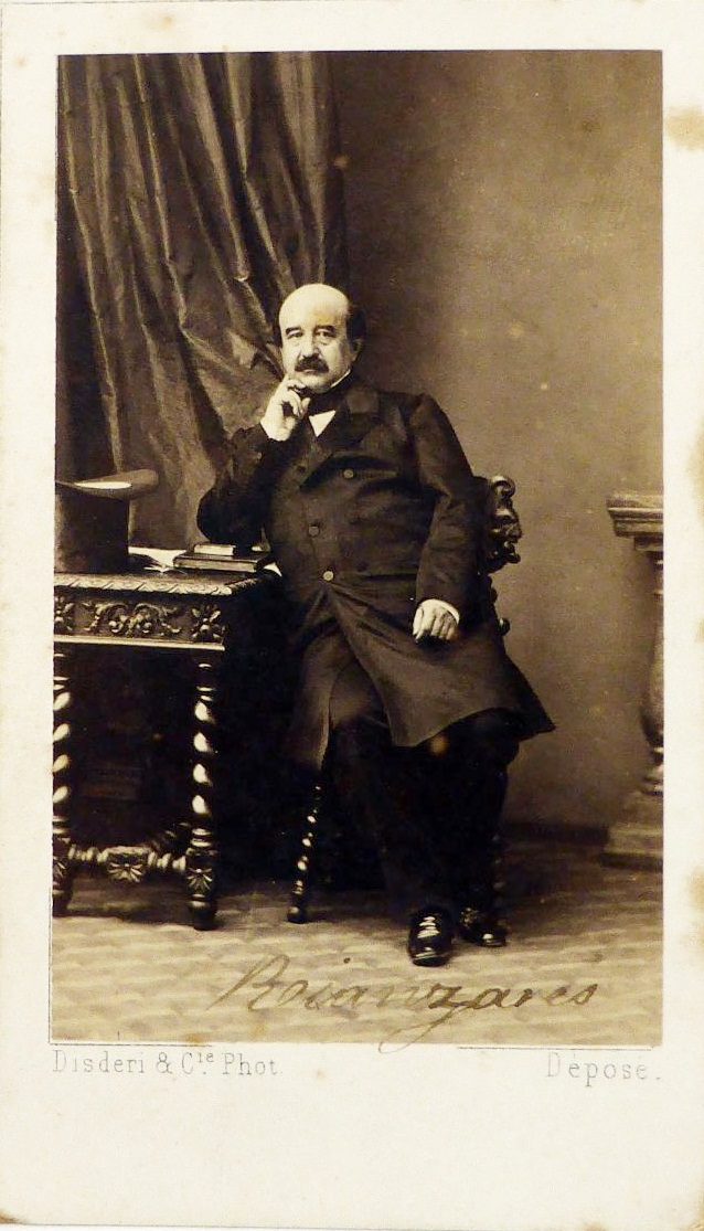 Portrait of Agustín Fernando Muñoz y Sánchez, seated, facing the camera.